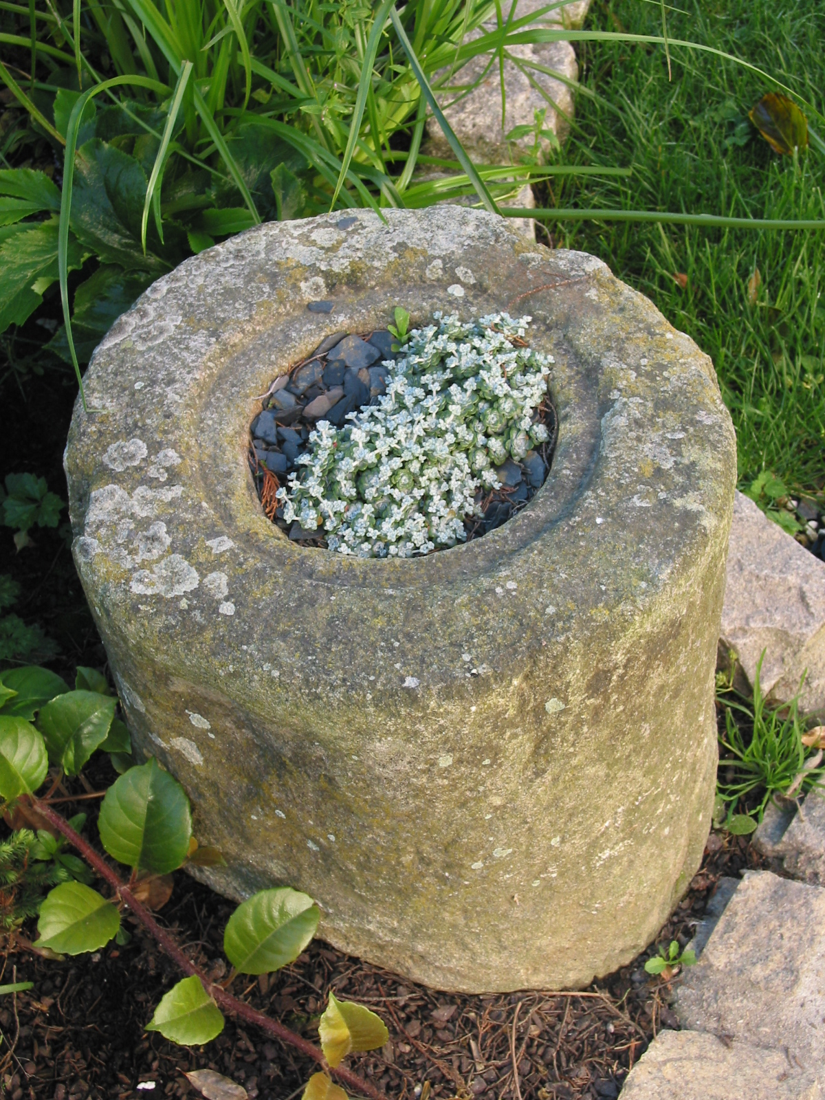 An ossarium